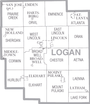 Logan County Illinois